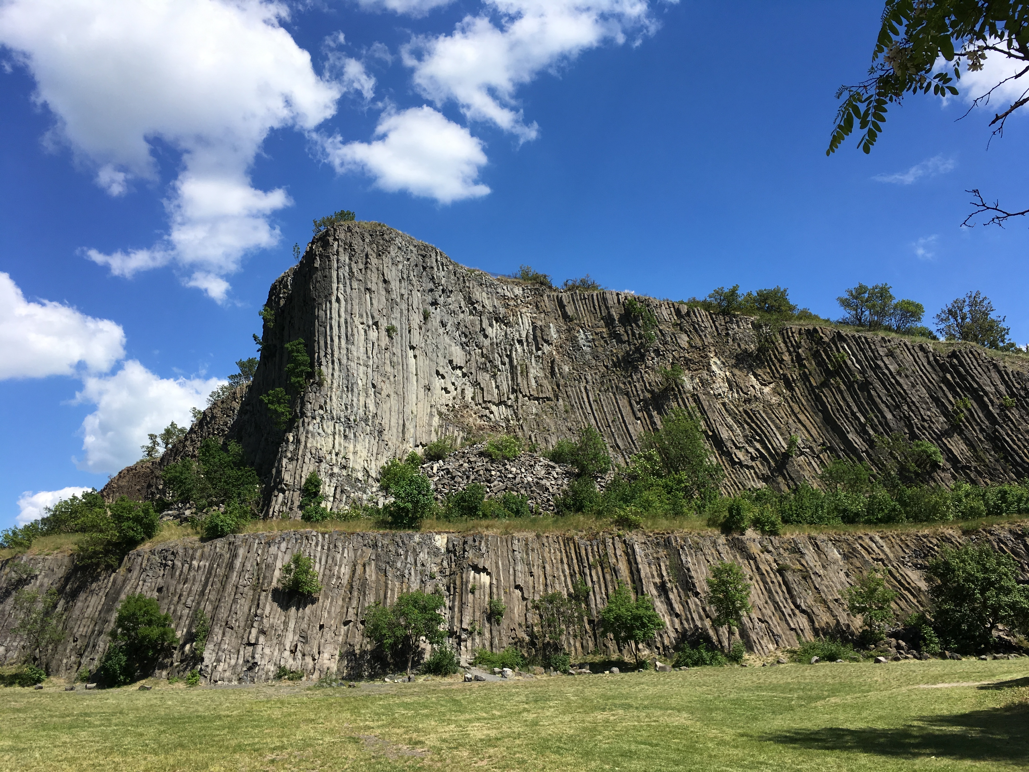 Hegyestű, Veszprém megye, near Balaton lake, Hungary.